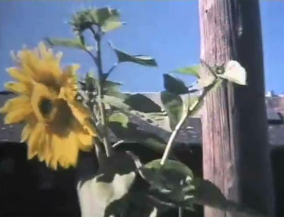 A still from the super-8 Remodernist film "so tell me again" directed by Jesse Richards.